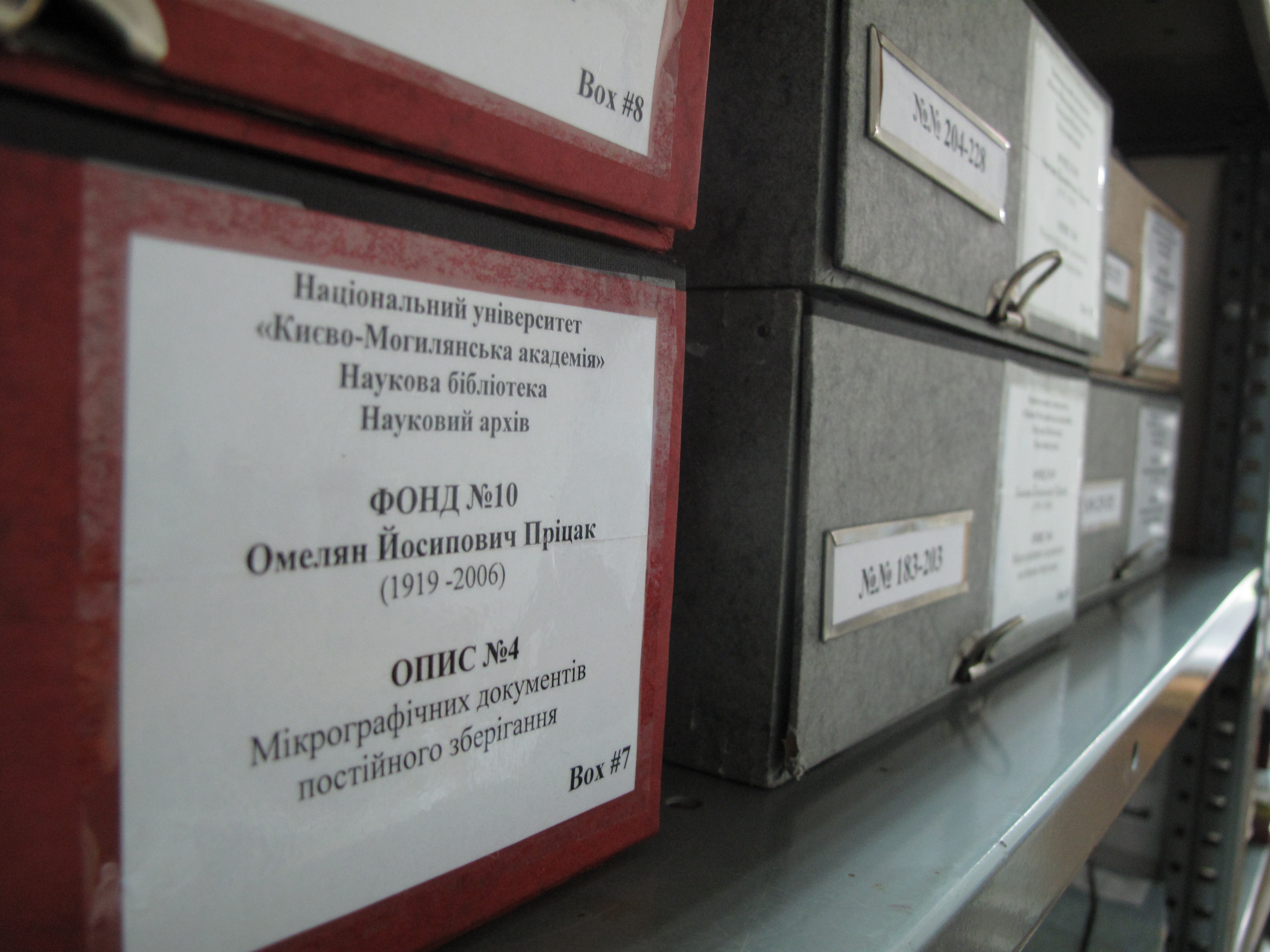 Archive boxes in Academic library